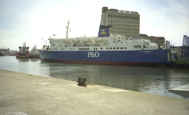 P&O Ferry St Sunniva in Aberdeen, about to depart for Shetland.